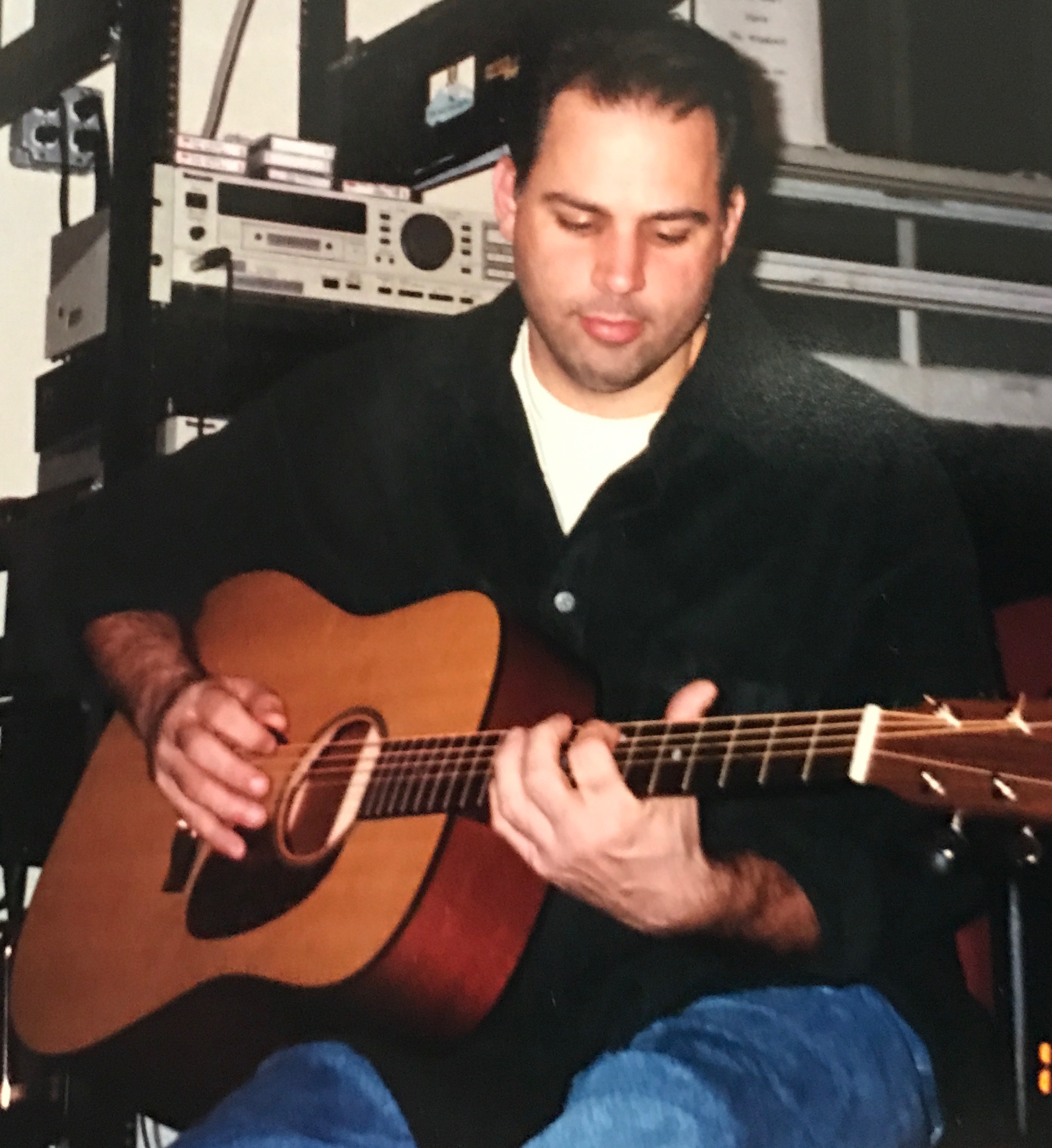 Mike playing guitar during an event